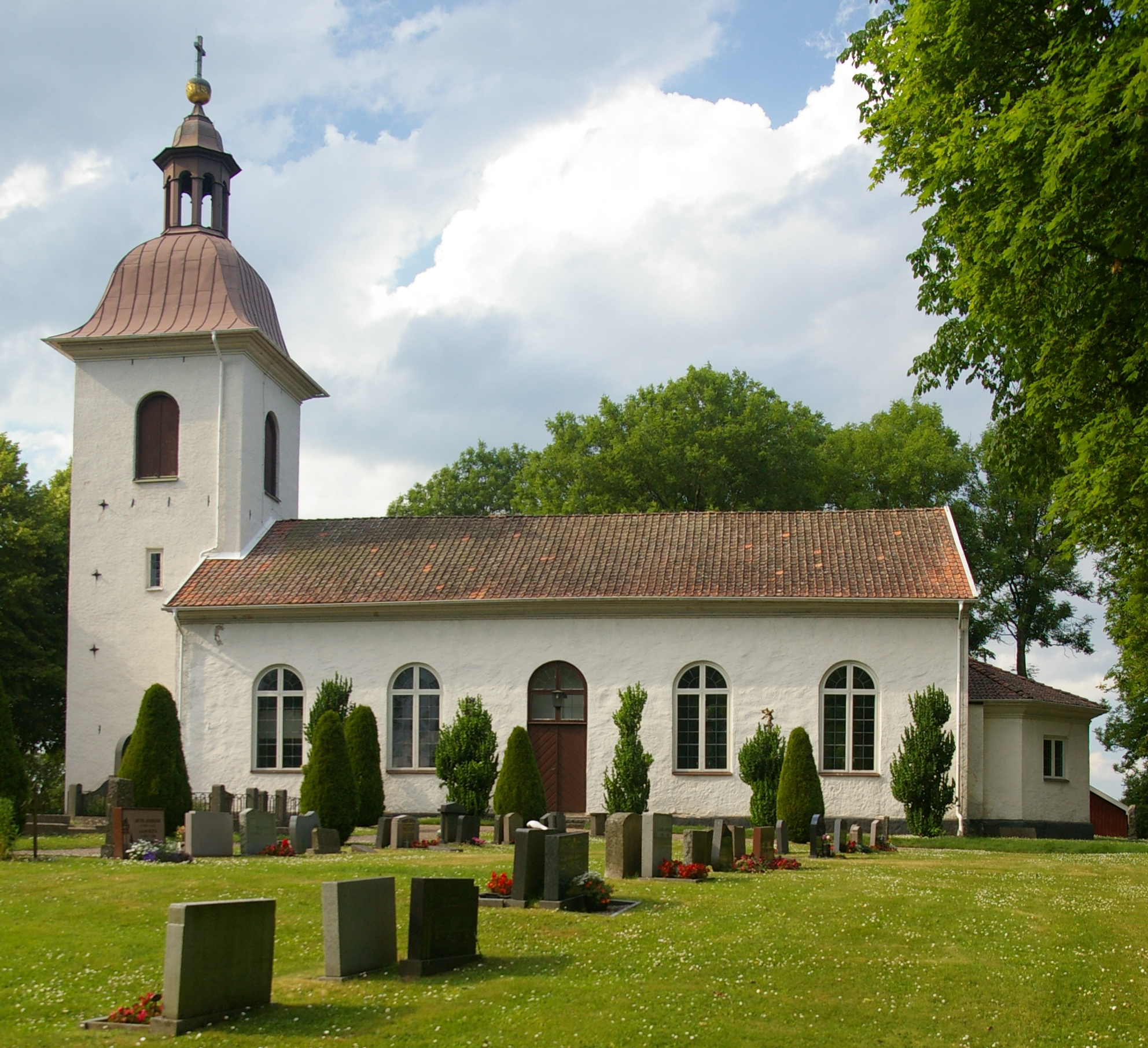 Yllestads kyrka (Swedish:Church of Yllestad) in Västergötland, Sweden